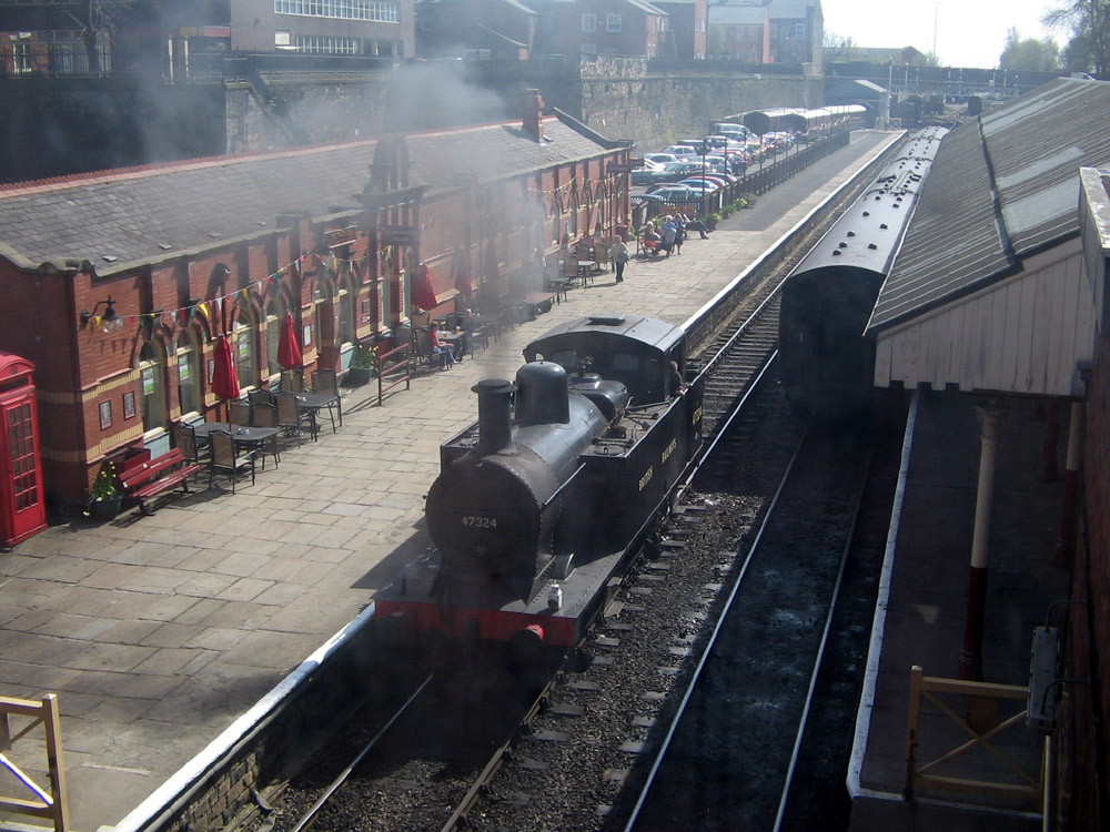 The East Lancashire Railway station at Bury. The locomotive is 47324 a Class 3F "Jinty". Photo by G-Man * Apr 2006